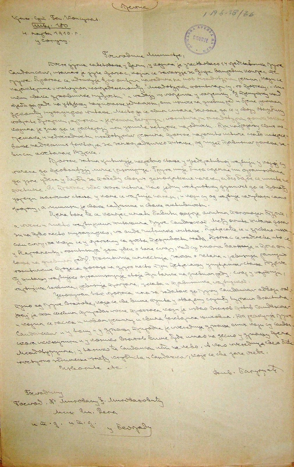 Report from Balugdzhikj: Decree of the group of Sandanists scheduling congress in order to separate from the group of Vlahov, which puts itself at the service of the Young Turks. (Thessaloniki March 4, 1910) This media file is produced by Wikipedian in Residence in Category:Wikipedian in Residence at DARM in 2016.